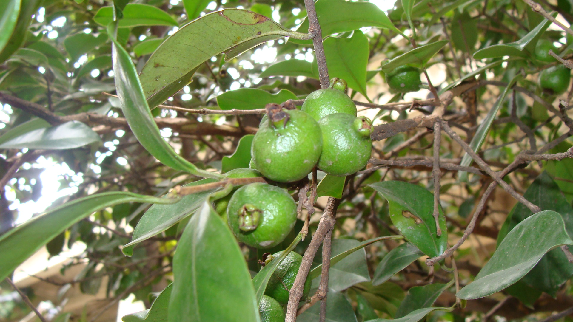 Psidium cattleianum